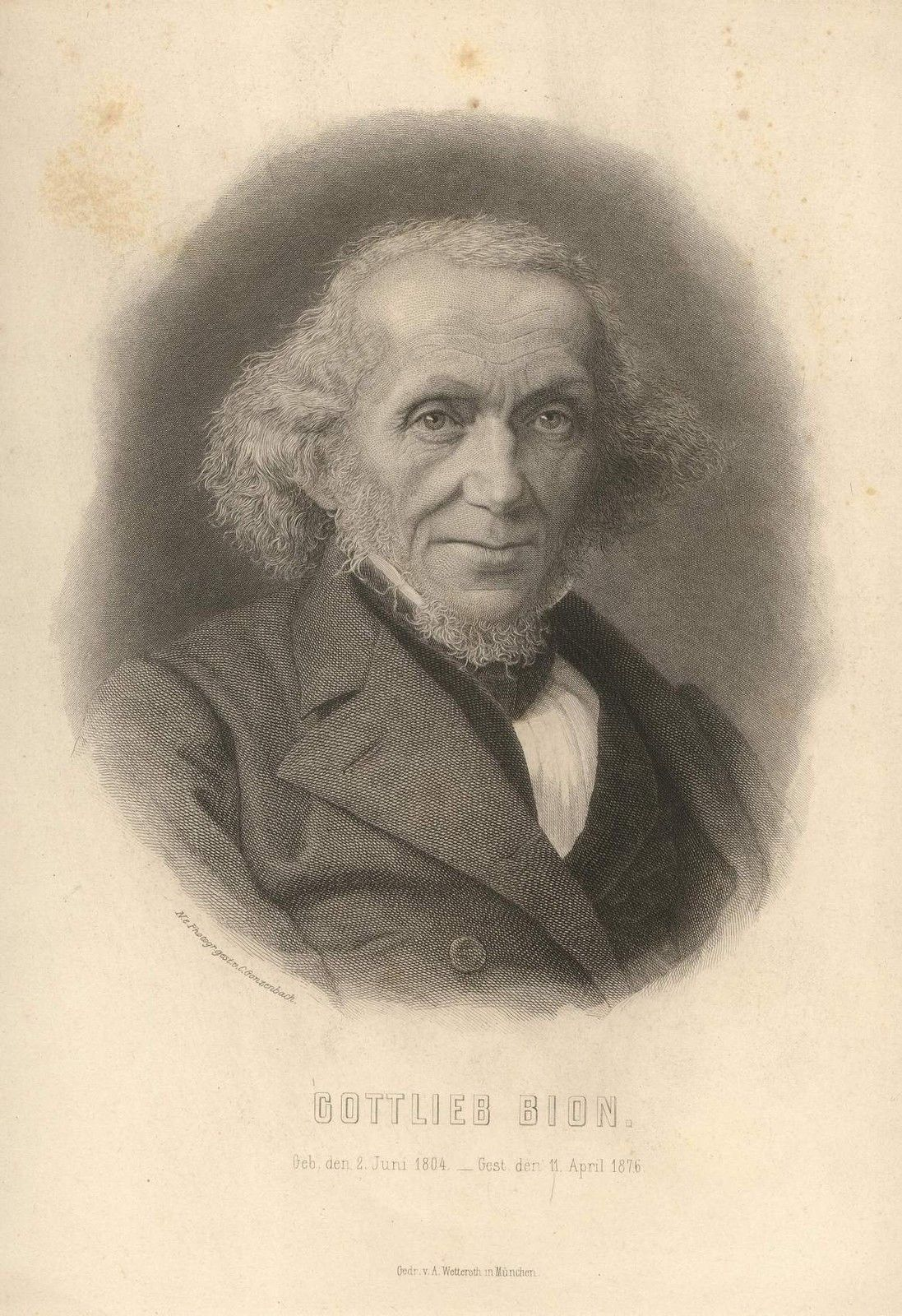 Porträt Gottlieb Bion nach einer Fotografie